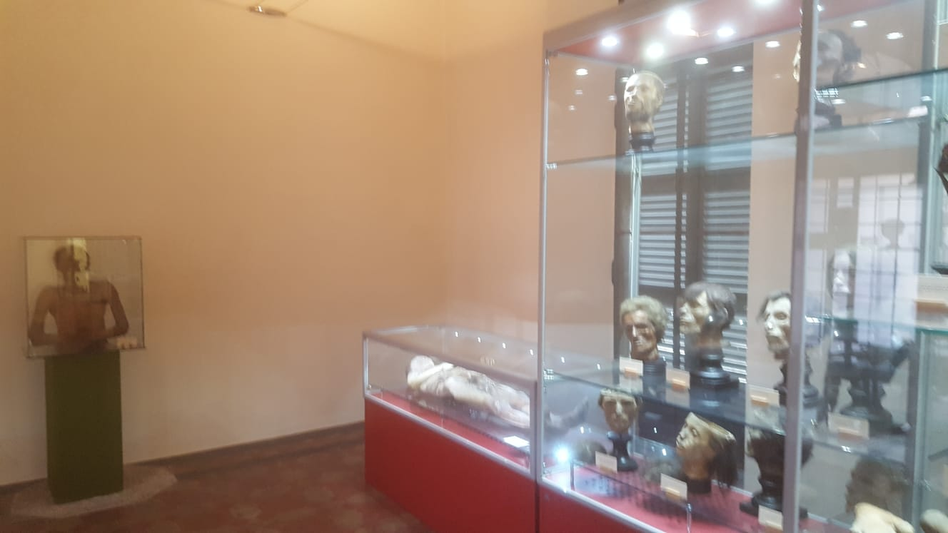 Paolo Gorini museum